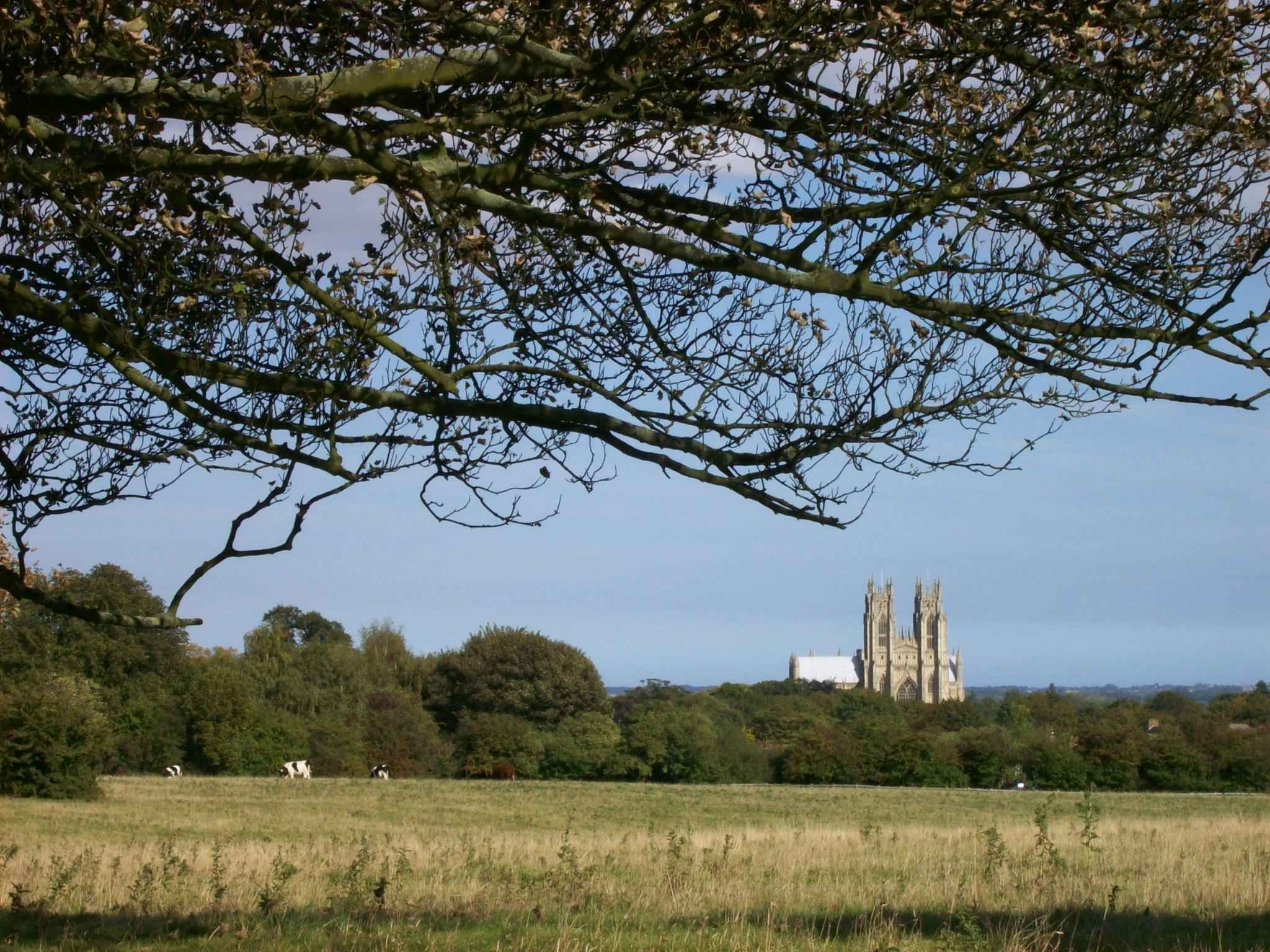 Beverley Minster, Beverley, East Riding of Yorkshire, EnglandViewed from Western Pasture